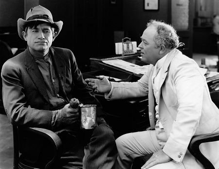 Will Rogers (left) and Nick Cogley in Honest Hutch (1920) - cropped screenshot.